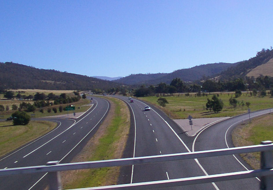 Taken from the Cambridge Interchange, the Tasman Highway facing the Hobart bound (west) direction.